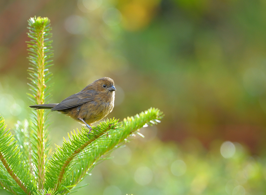 Taiwan Rosefinch Carpodacus formosanus, female, Taiwan